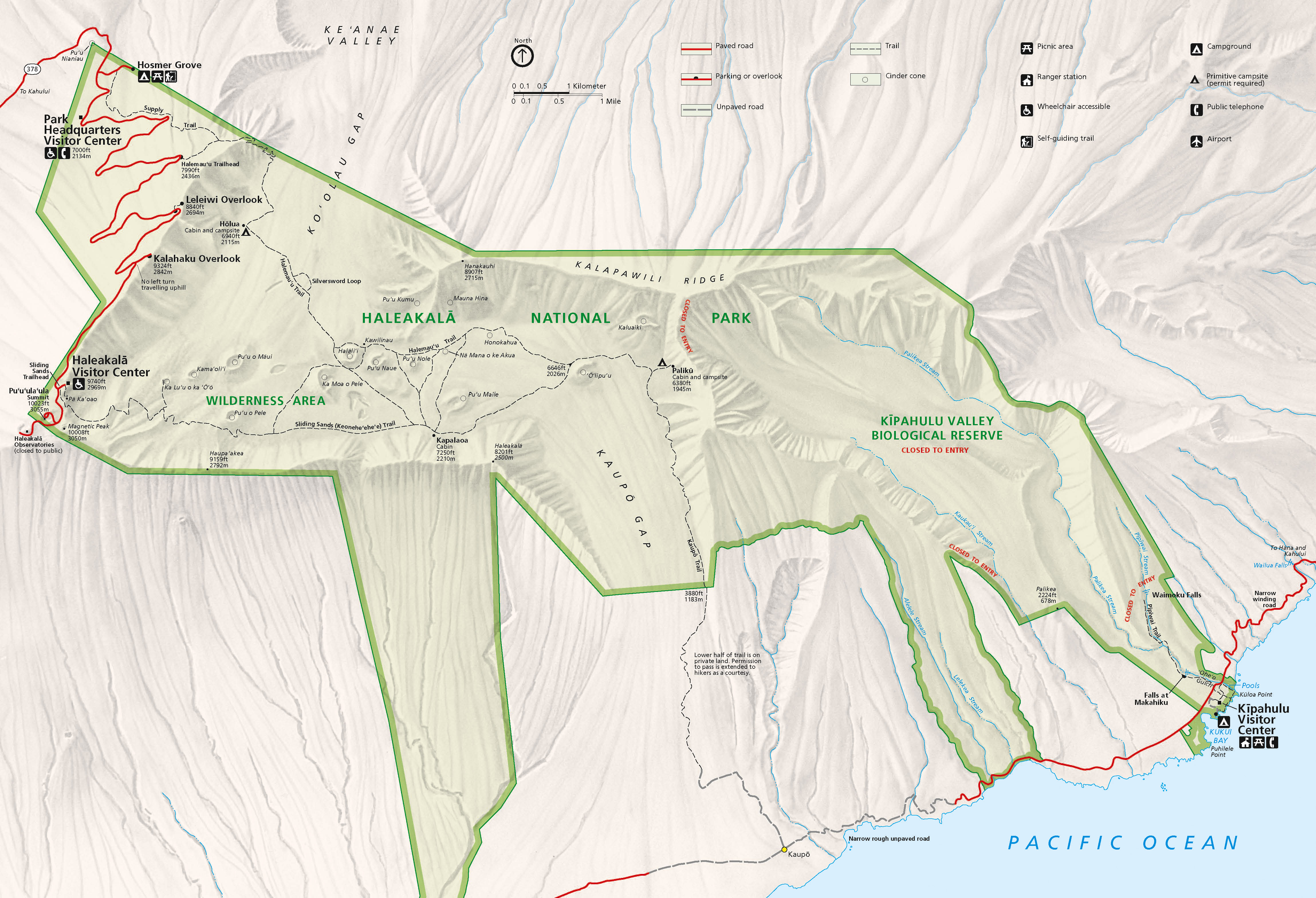 Official National Park Service map of Haleakala National Park, Hawaii. Converted from PDF using Adobe Acrobat 7.0 Professional. Original file name: HALEmap1.pdf